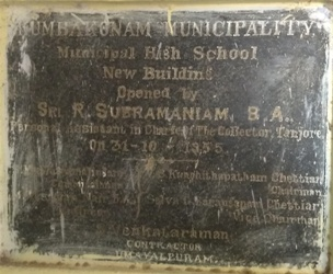 Inscription dated 31 October 1955 about the building opening found in the Arignar Anna Government Higher Secondary School, Kumbakonam, Tamil Nadu, India